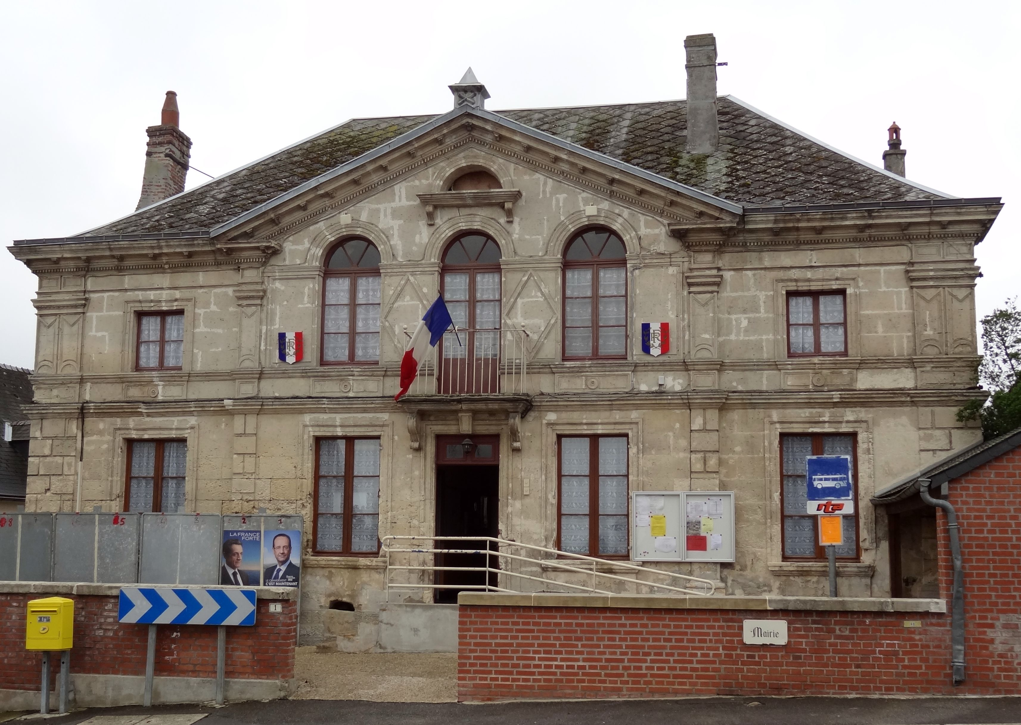 Molinchart town hall (May 6, 2012)